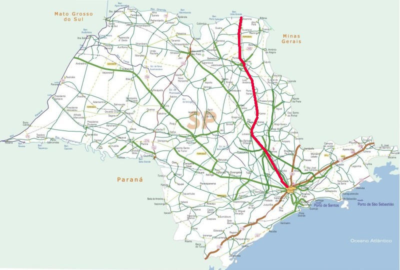 Map of Rodovia Anhanguera, a highway in the state of São Paulo, Brazil, drawn on a public domain map by the Ministry of Transportation, Brazil.